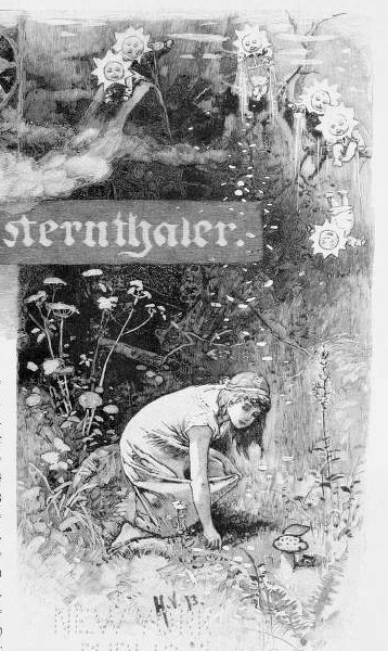 illustration of the Brothers Grimm fairy tale "The Star Money"